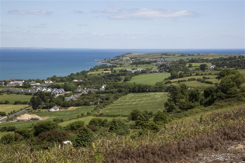 View of Gaeltacht na nDéise